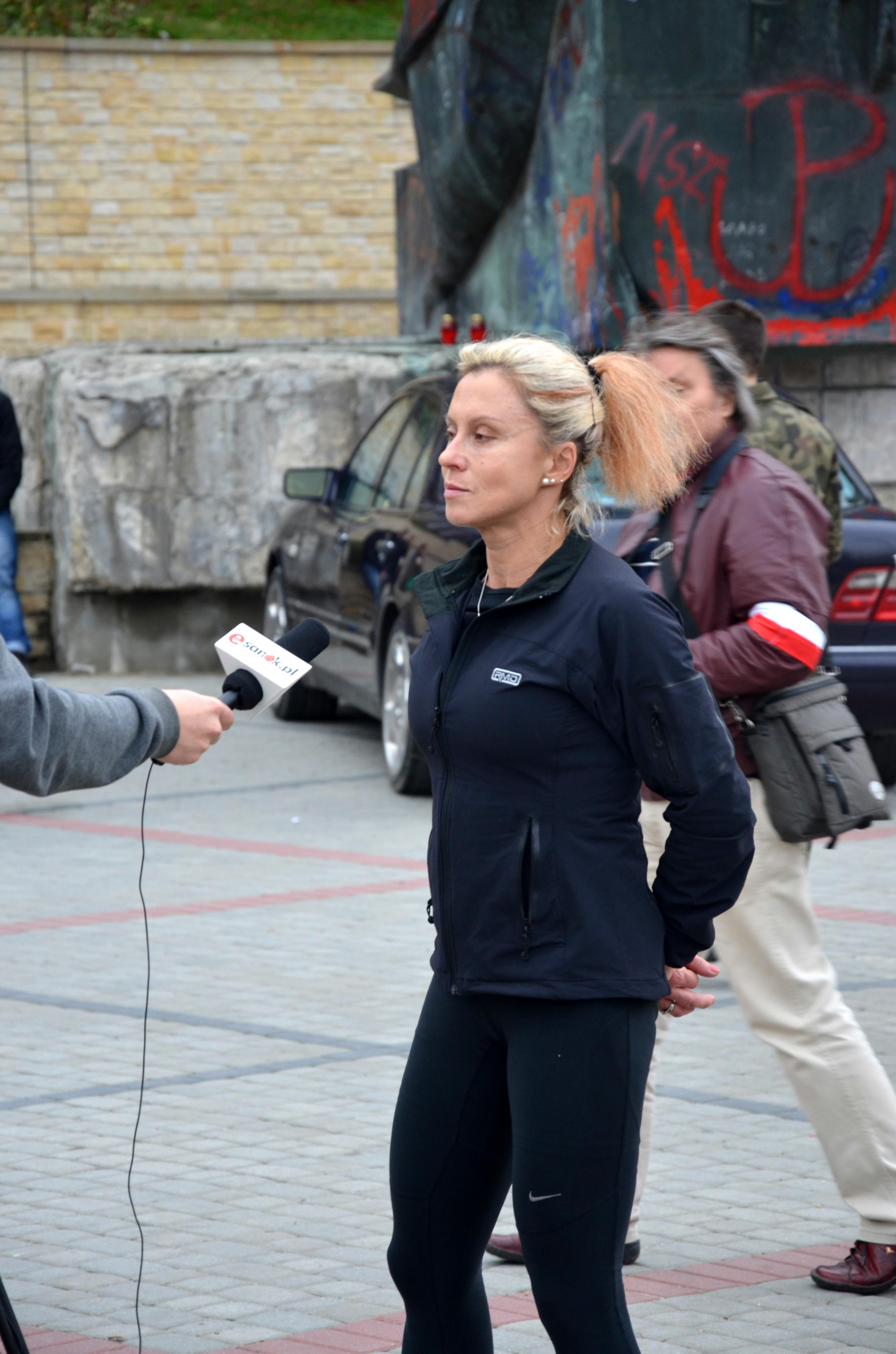 Izabela Zatorska, Sanok